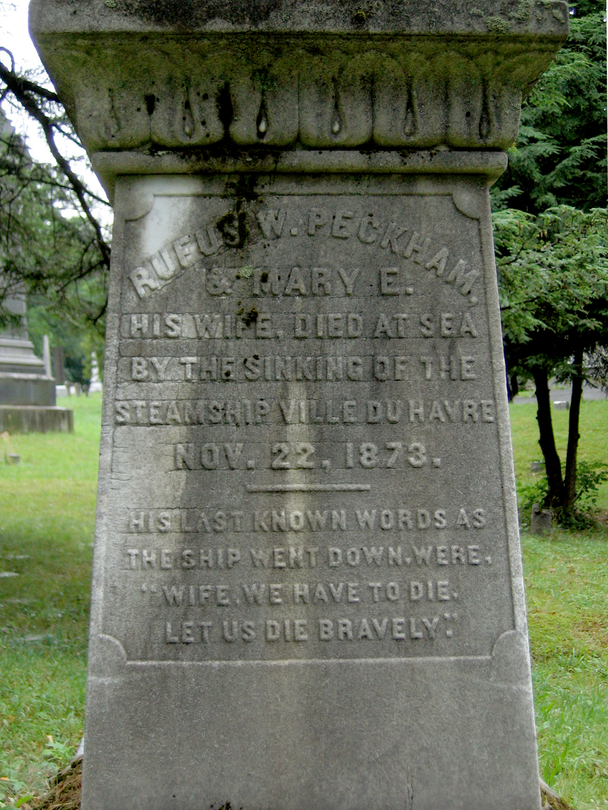 Cenotaph of Rufus Wheeler Peckham (1809 - 1873), who was lost at sea. Albany Rural Cemetery, Menands, New York.